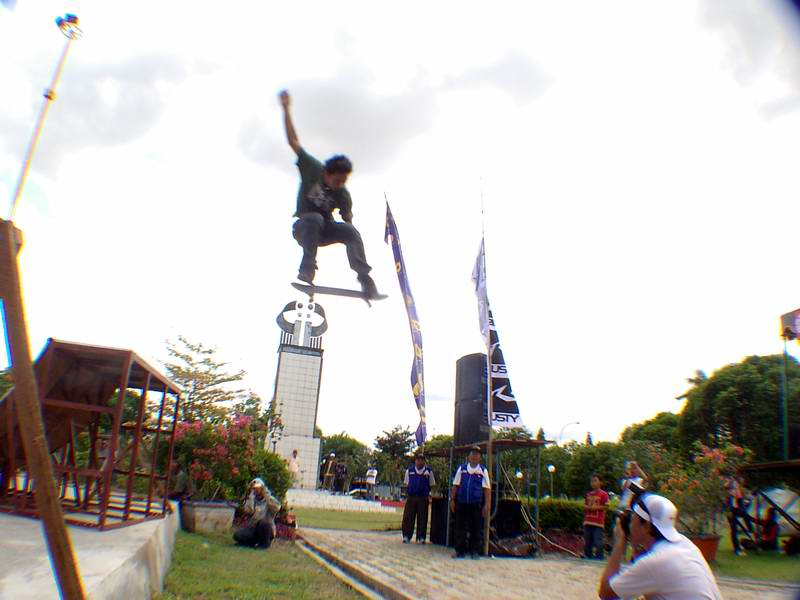 Tony Sruntul - Huge Gap Ollie.